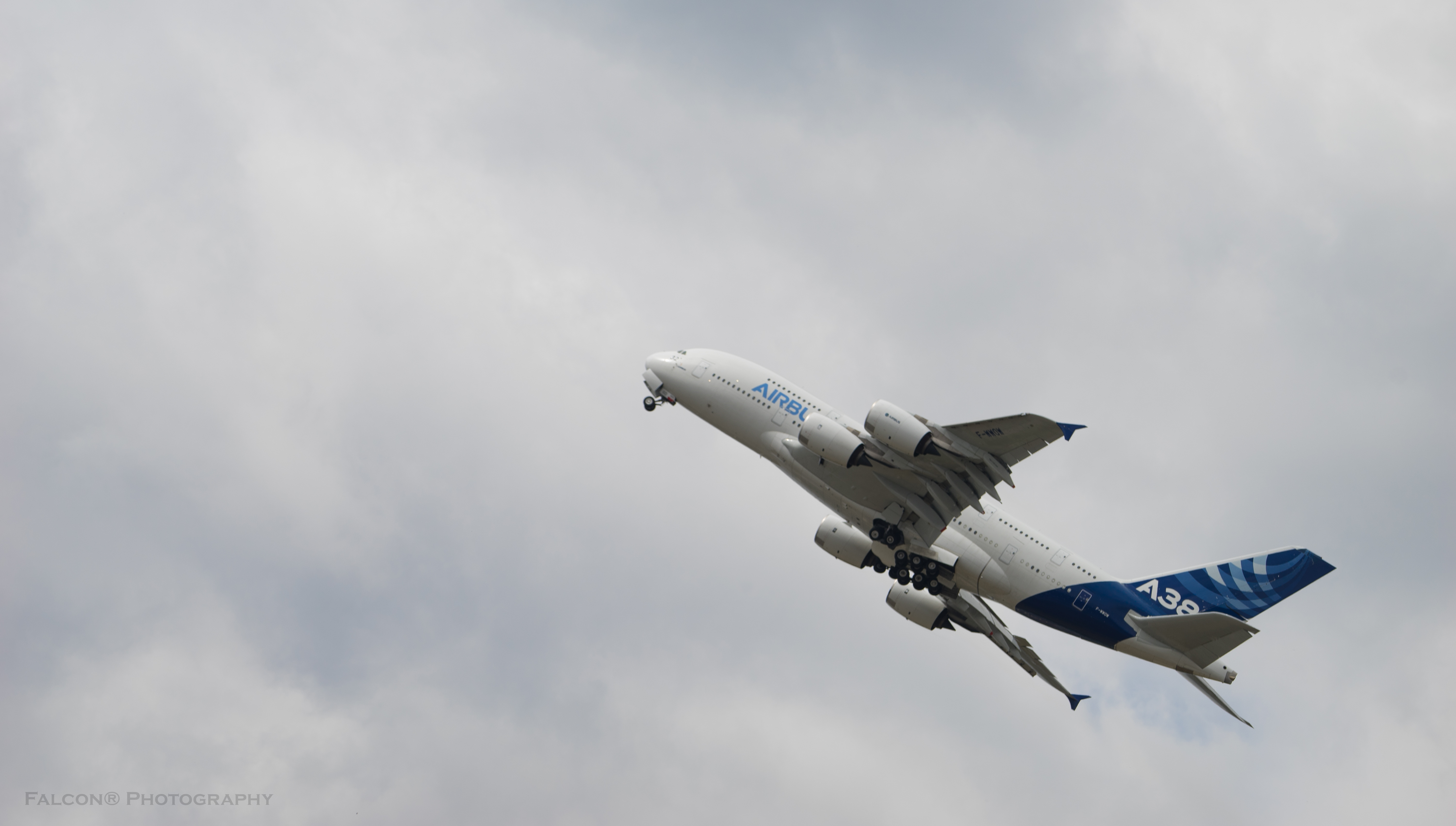 Mise en service 25 octobre 2007 Investissement : 15 milliards€ Coût unitaire :428,0 millions de dollars (2015) 162 appareils dans le monde